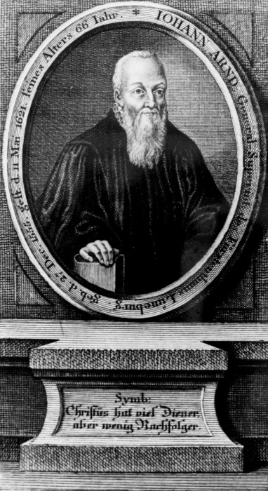 Johann Arndt, ev.-luth. Theologe und Autor, 1555-1621